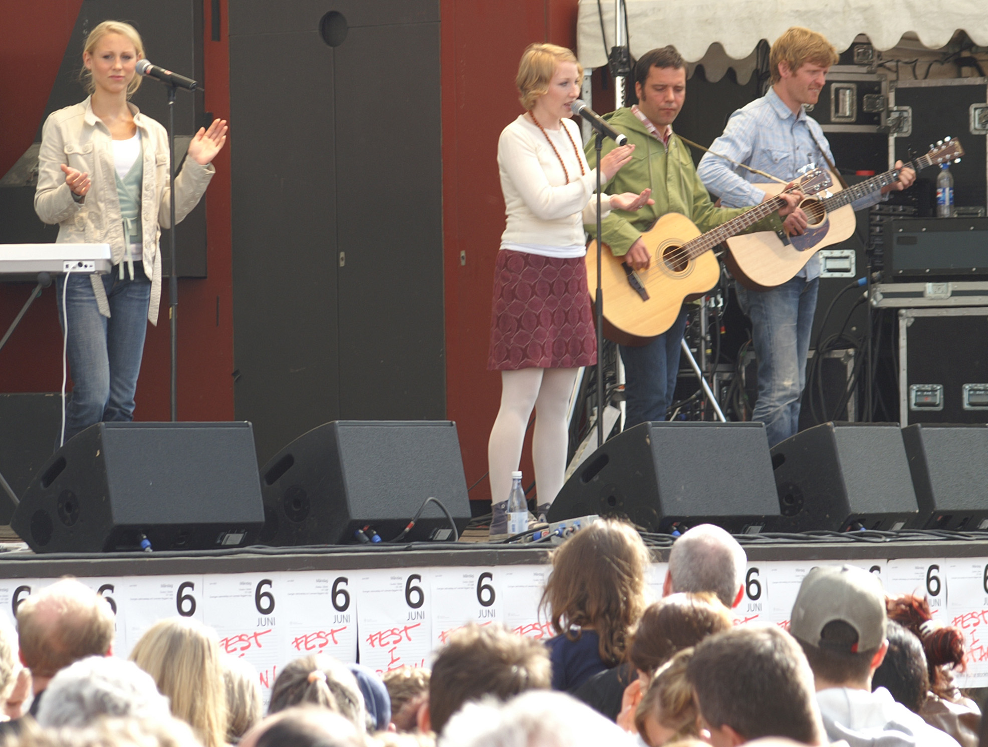 Description: Raymond & Maria i Kungsträdgården Capture date: 2005-06-06 Source: Self-made Photographer: Alexander Augst